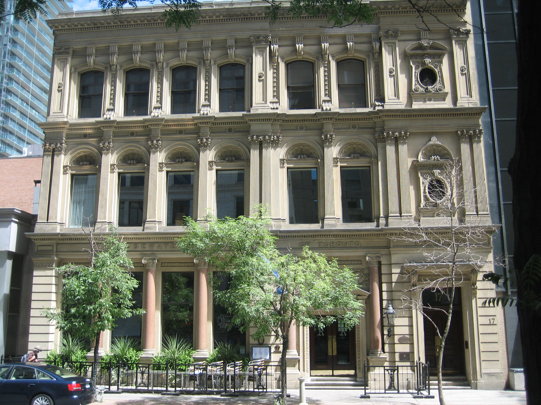 Consumer's Gas Building